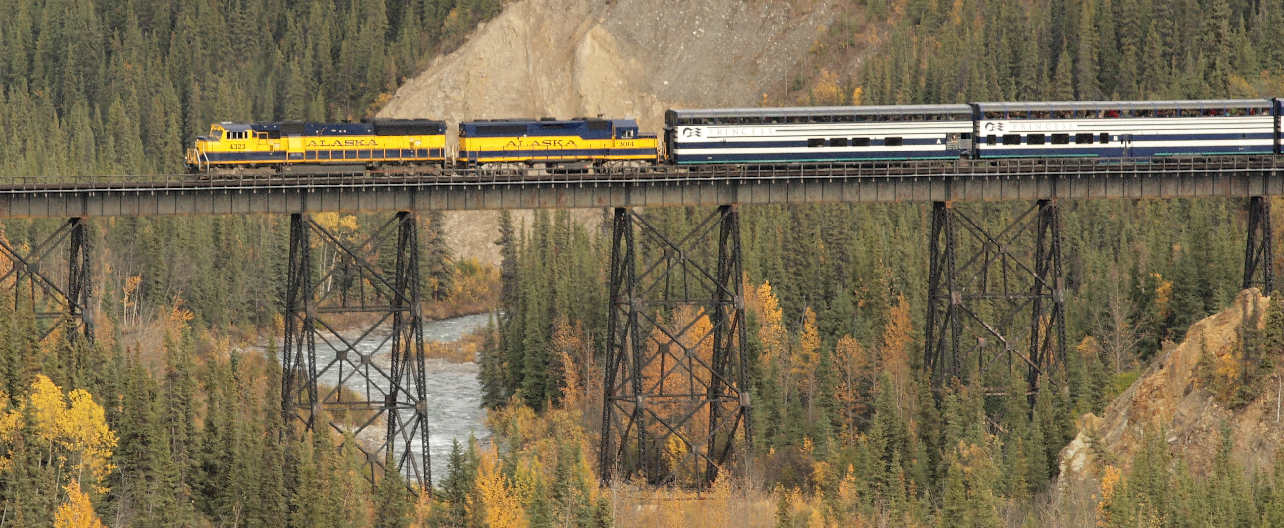 I took this photo in Denali National Park while driving the Denali Road in September 2008. The two cars behind the locomotives belong to Princess Tours. Railway trestle bridge spuns across Riley Creek.